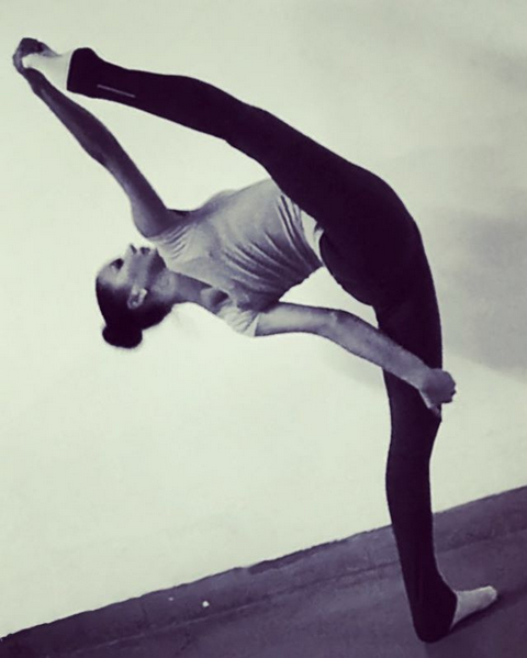 Anna Stankus is a current Cirque du Soleil and circus performer with a signature hula hoop act incorporating gymnastics and contortion.